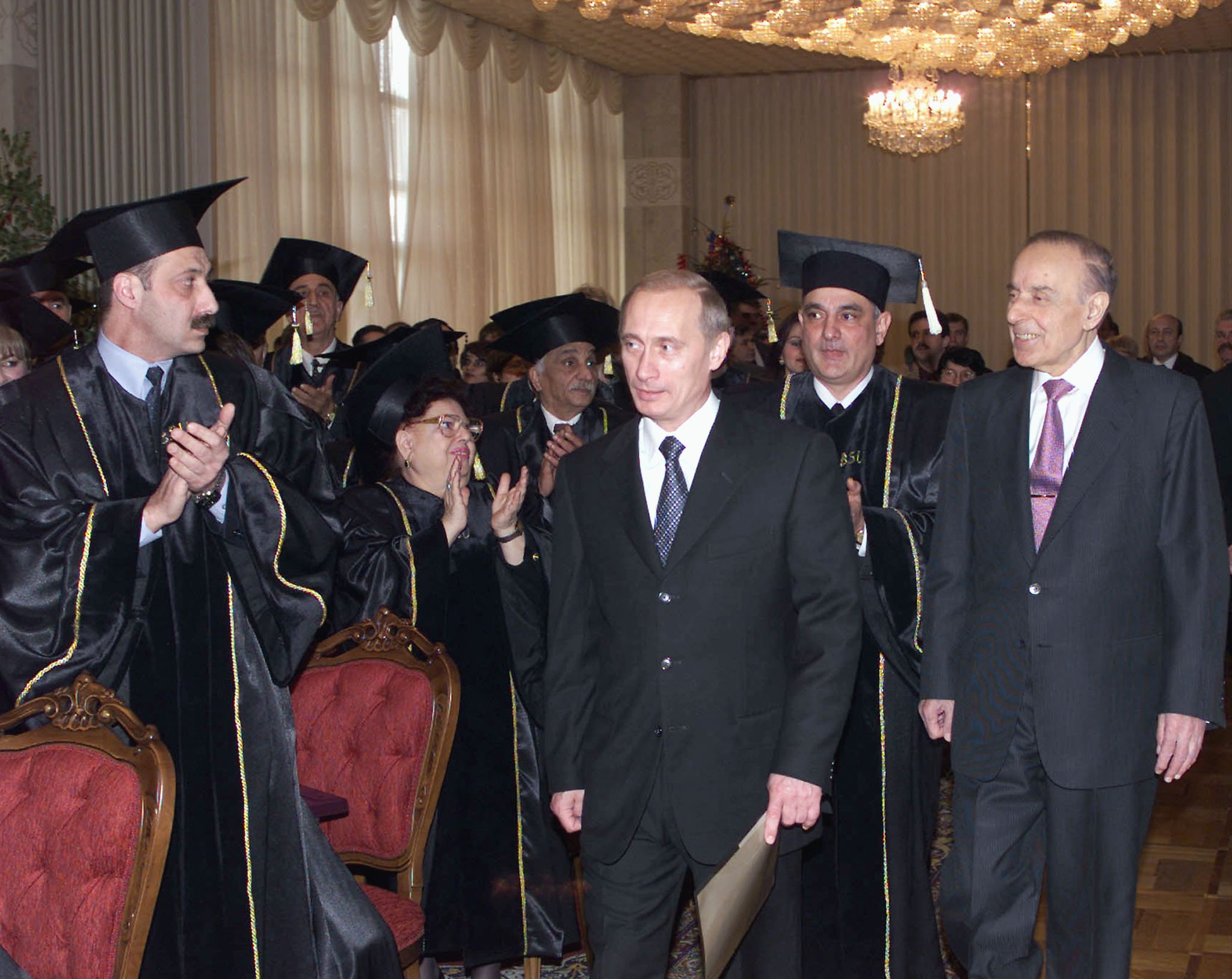 BAKU. President Vladimir Putin and Azerbaijani President Heydar Aliyev at Baku Slavic University.